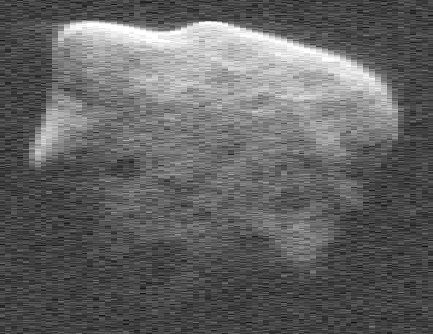 Radar image of the NEO - asteroid (53319) 1999 JM8, which has an apollo-type-orbit an had a "nearby-fly" of only 8.5 millon km